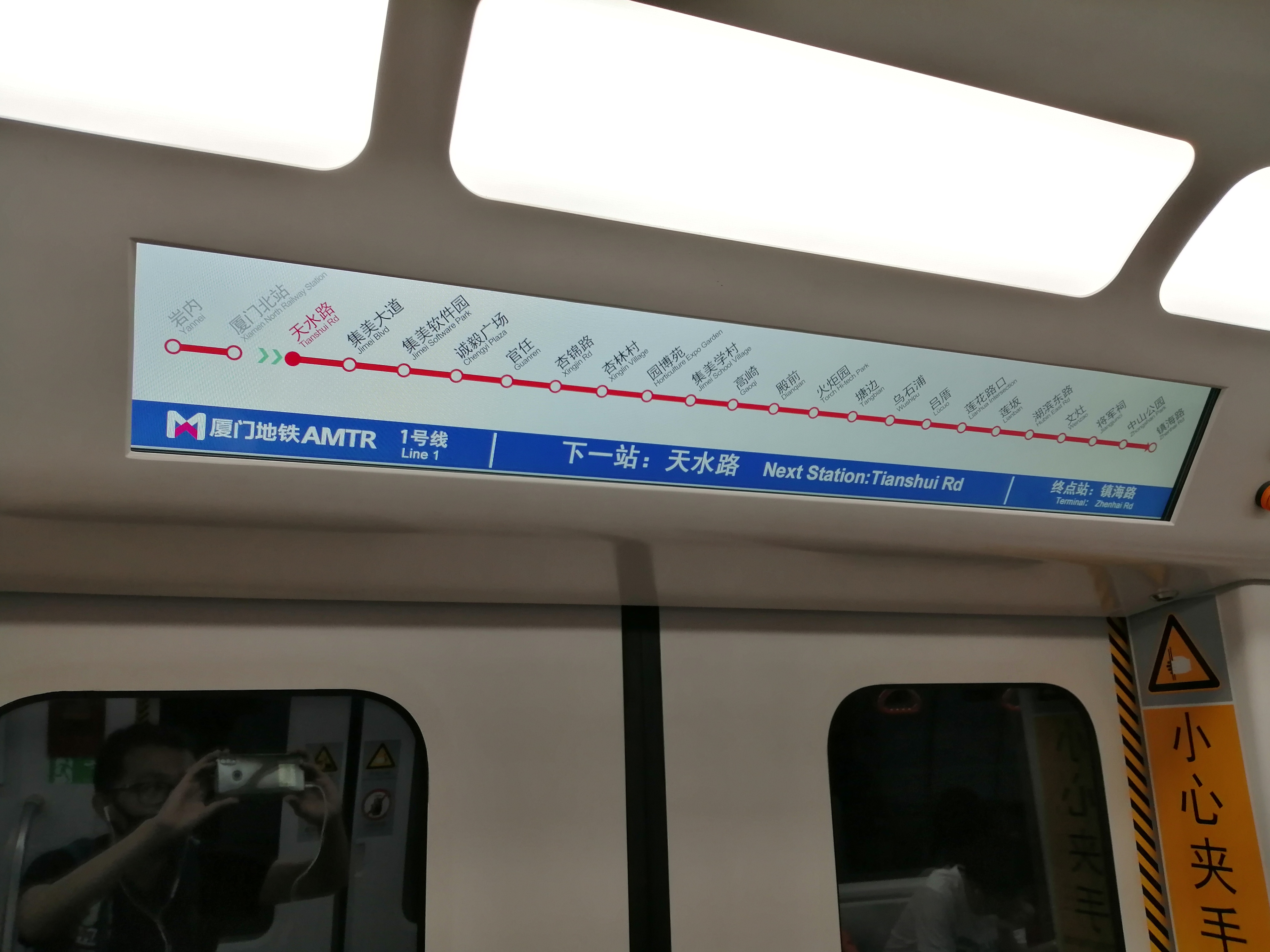 The interior display of Line 1 train of Xiamen Metro 中文（中国大陆）: 厦门地铁1号线列车内部的显示屏